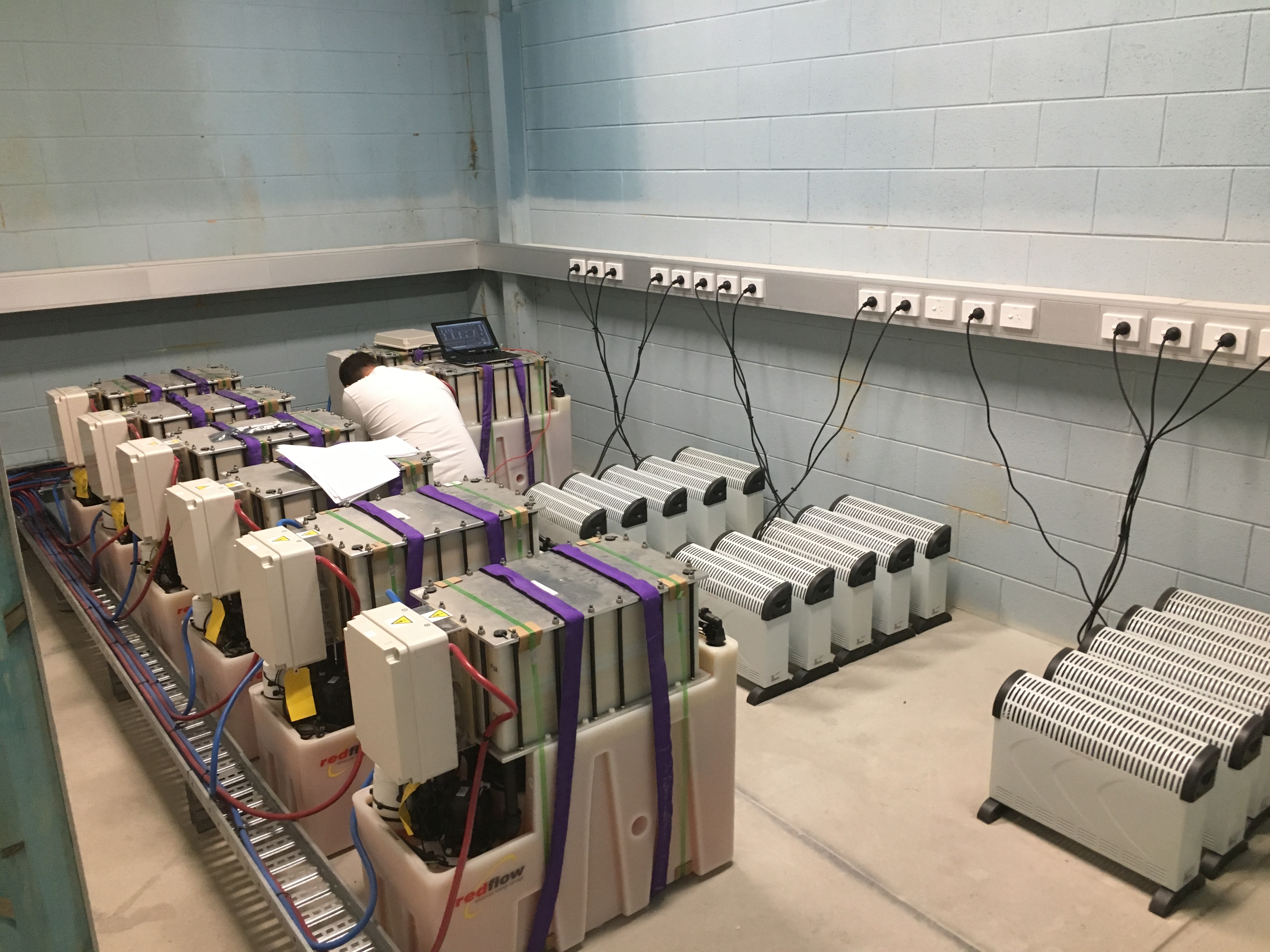 A number of Redflow ZBM2 48V zinc-bromine flow batteries installed in a performance characterisation lab in Adelaide, South Australia, along with an energy discharge load bank (electric heaters).